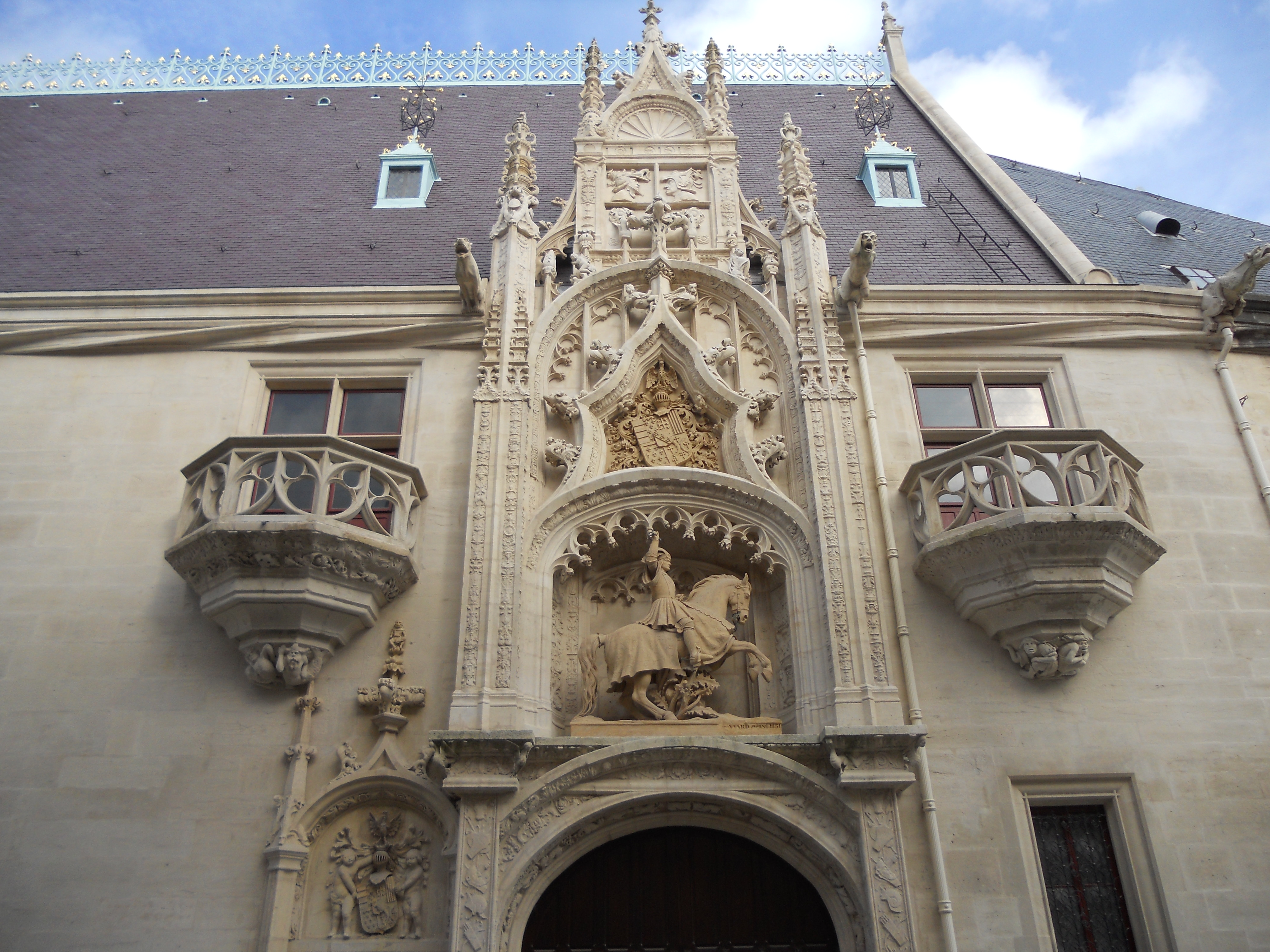 Renovated front of the Lorraine Museum (former entrance to the Palace of the Dukes of Lorraine)